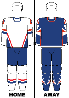 The home and away jerseys of the French national ice hockey team (without the symbol of the French Ice Hockey Federation).